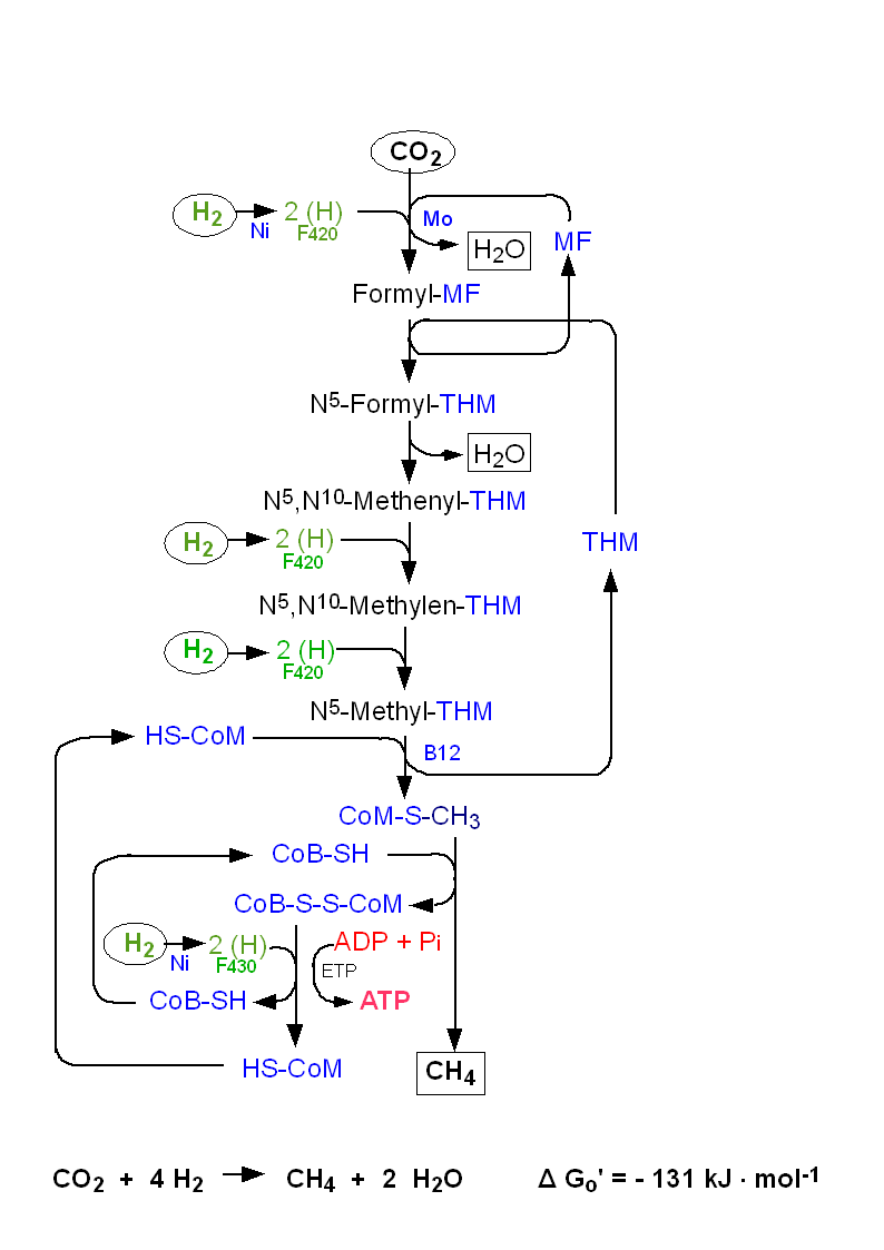 Biochemical way of methanogenesis from carbondioxide by archaea, coupled with phosphorylation of ADP. Abbreviations: MF - methanofurane, THM - tetrahydromethanopterine, CoM - coenzyme M, CoB - coenzyme B, B12 - B12-cofactor, Ni - hydrogenase with nickel cofactor, Mo - dehydrogenase with molybdenum cofactor, F420 and F430 - electron carrier factor 420 and 430 resp.